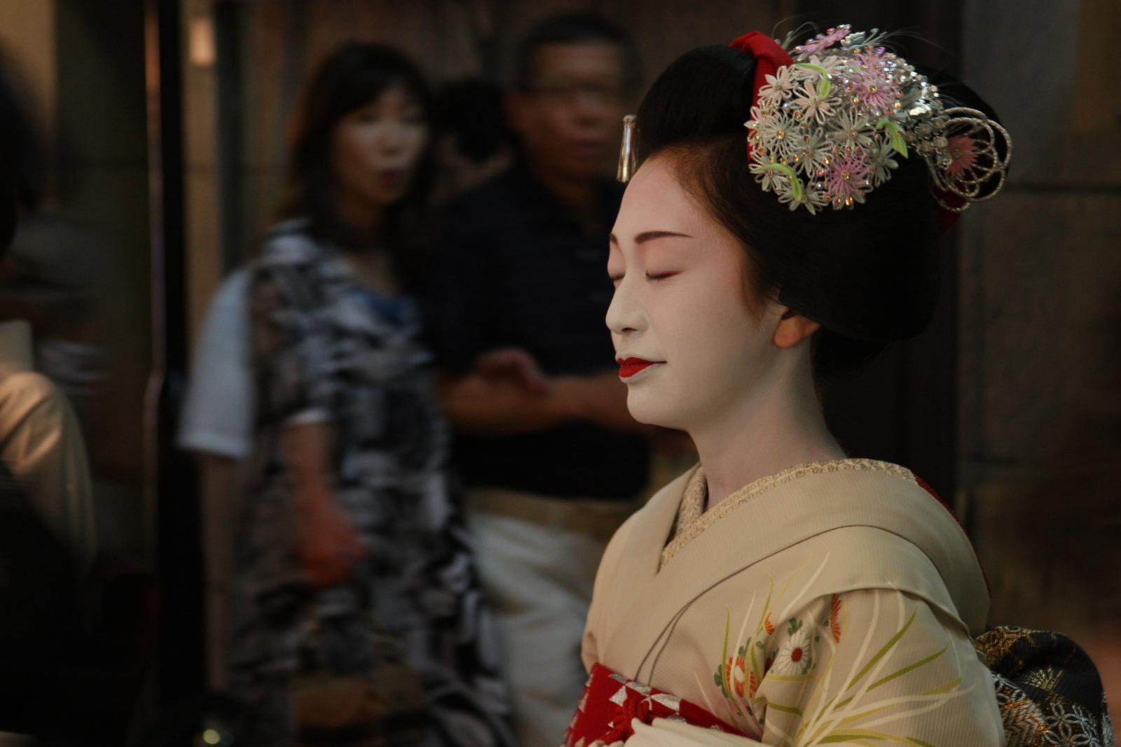 Maiko Ichifuku (Masynoya okiya, Pontochô) wearing katsuyama hairstyle.